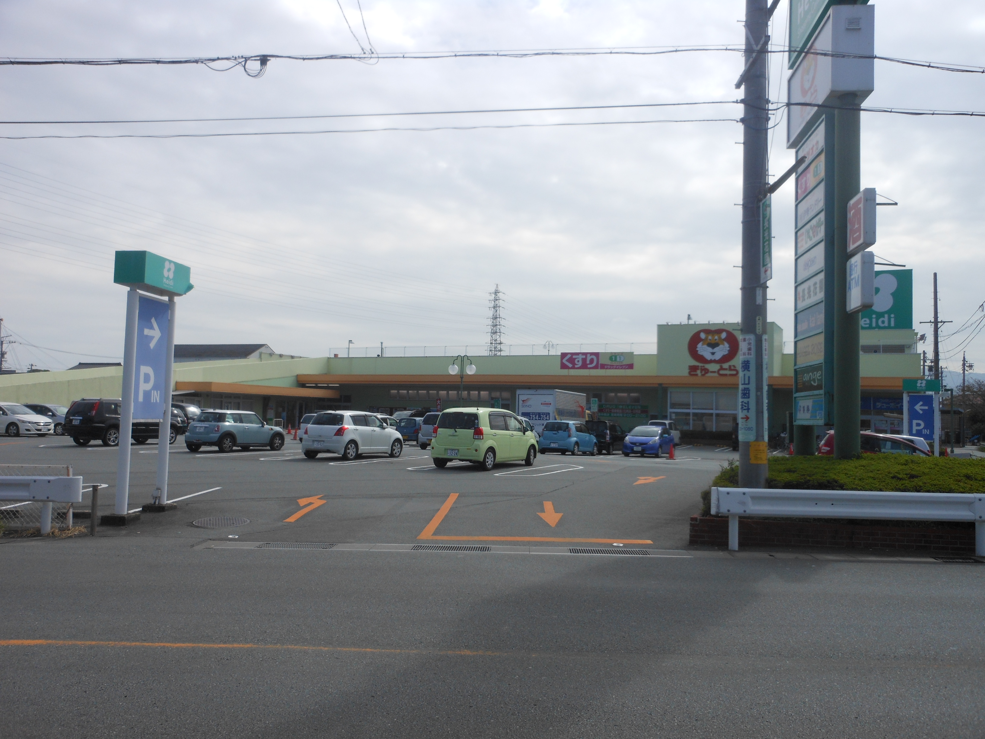 This is the shooping center "Gyutora Heidi shop" in Funae, Ise, Mie, Japan.